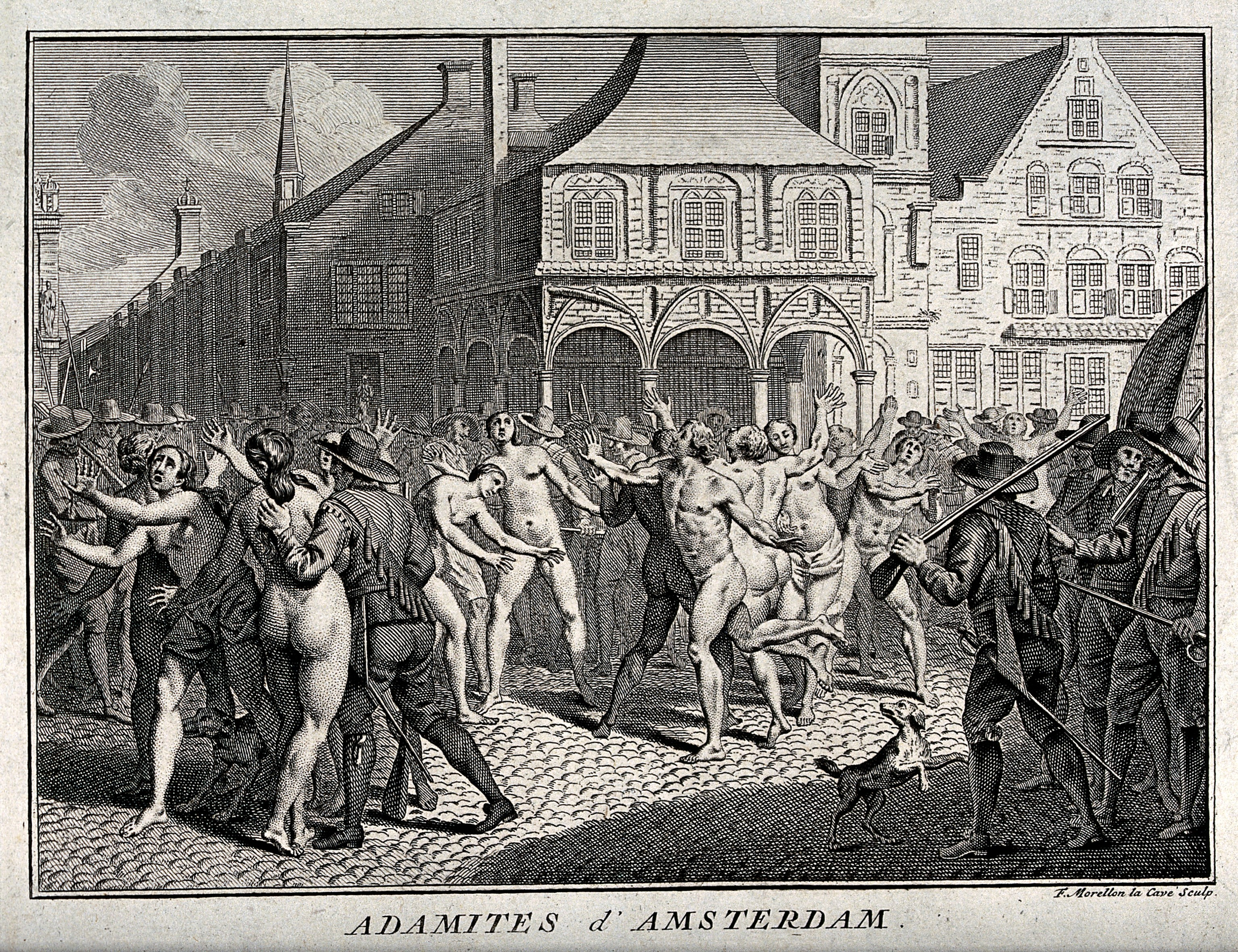 The arrest of Adamites in a public square in Amsterdam. Etching by F. Morellon la Cave. Iconographic Collections Keywords: Francois Morellon de La Cave